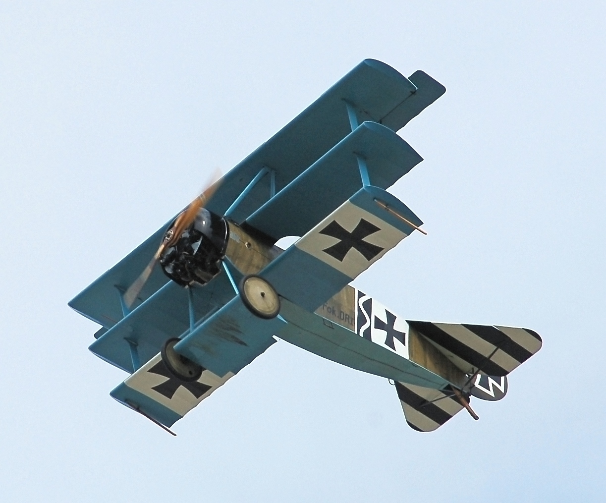 Fokker Dr.1 replica triplane, built 2006. Taken at Filton Aerodrome (Bristol) on an Air Day in 2010. Although it can’t be seen on the picture the reg is G-CDXR. I think the serial of the plane on which this replica was modelled was 403/17. Dr = Dreidecker, meaning Triplane in German.